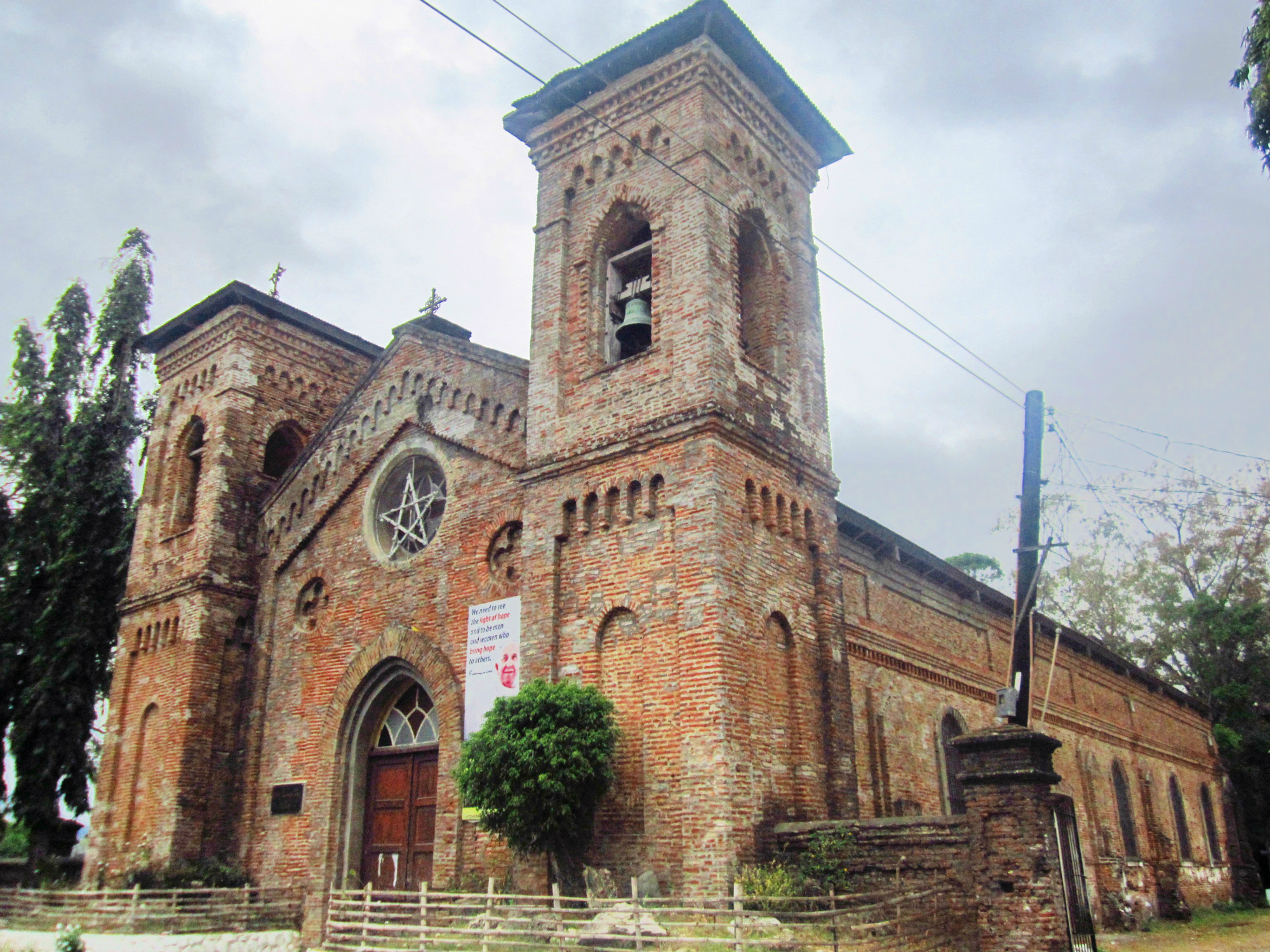 An old chapel at Bangued's public cemetery.